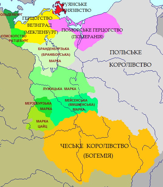 Map of western slavonic states and german trans-Elb possesions (ukrainian)